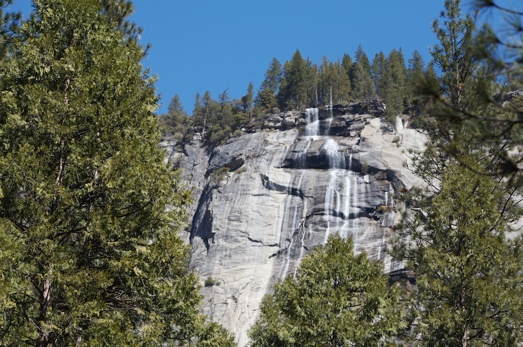 The Royal Arch Cascades, northeast of the Ahwahnee Resort, Yosemite Natl. Park.